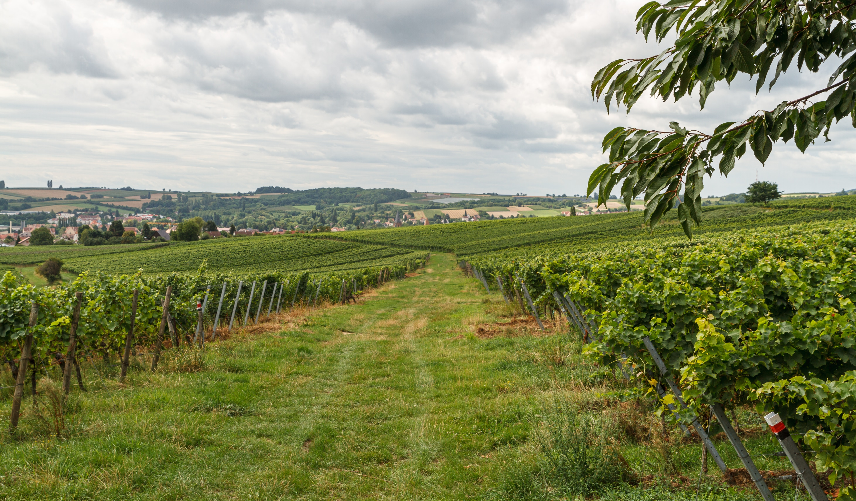 This is a picture of the protected area listed at WDPA under the ID 555521707 Title: View from the cemetery in Schweigen to Great East in France in the south Designation 1: Palatinate Forest Nature Park Type 1: Nature park Number 1: NTP-073-013 Year of the regulation 1: 1958 Description: Bunter sandstone low mountain range with wide beeches and oaken old-growth forest. Rocks, streams and meadow valleys with varied standing water bodies. On the eastern edge calcareous dry grassland areas. With its very high forest share (76%), the nature park is the largest contiguous forest area in Germany. It is characterized by a diverse and impressive red sandstone landscape, rocks and acidophilous beech and pine forests as they show up anywhere else in Germany. Place: Quarter Schweigen, Local municipality Schweigen-Rechtenbach, Collective municipality Bad Bergzabern, Rural district Südliche Weinstraße, Rhineland-Palatinate, Germany Parcel of land: Rosslauf Designation 2: Biosphere reserve Palatinate Forest Type 2: Natura 2000 Number 2: 6812-301 Year of the regulation 2: 1998